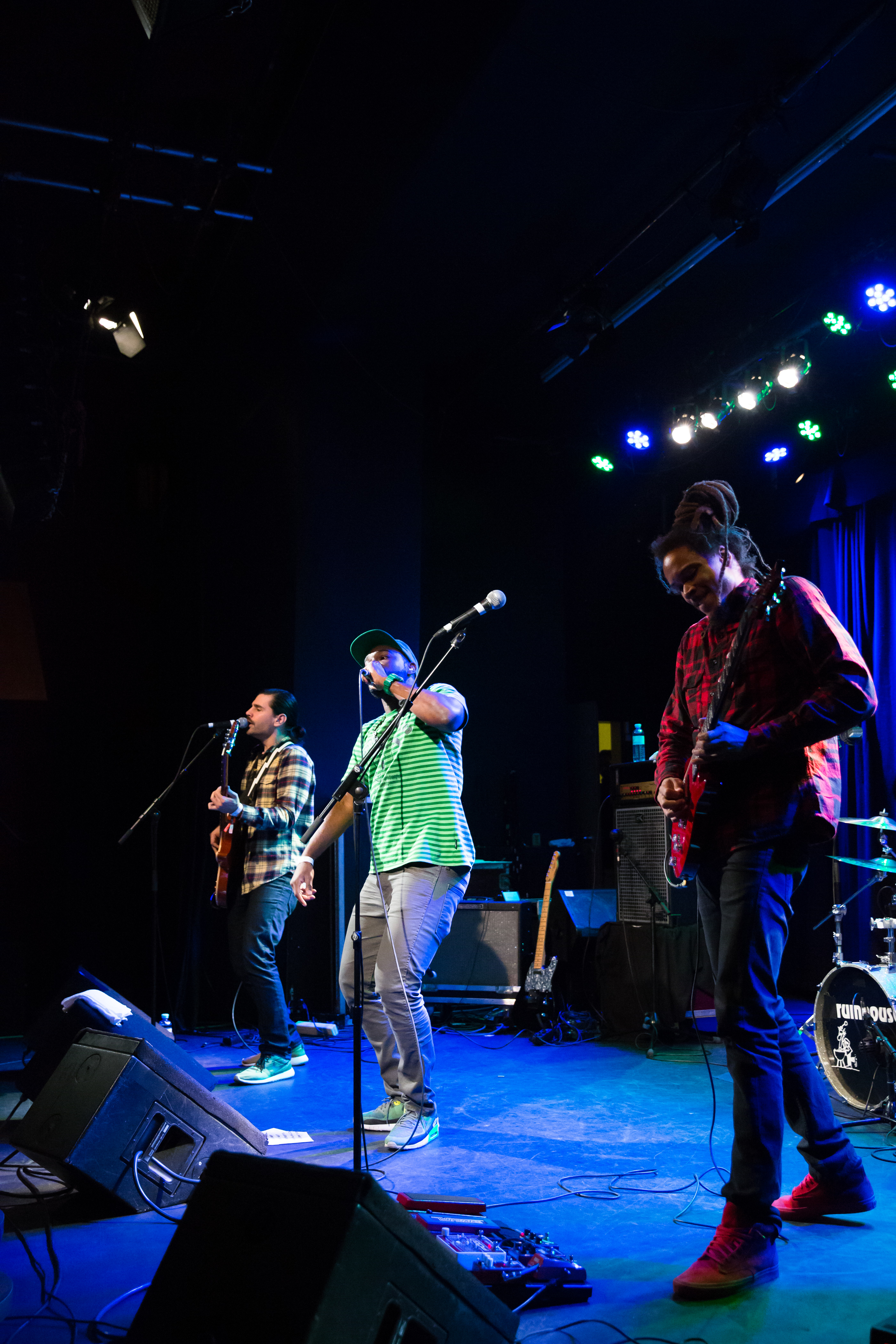 RDGLDGRN, concert at Waves Vienna 2015 (Vienna, Austria).